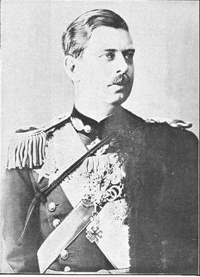 King Carol II of Romania